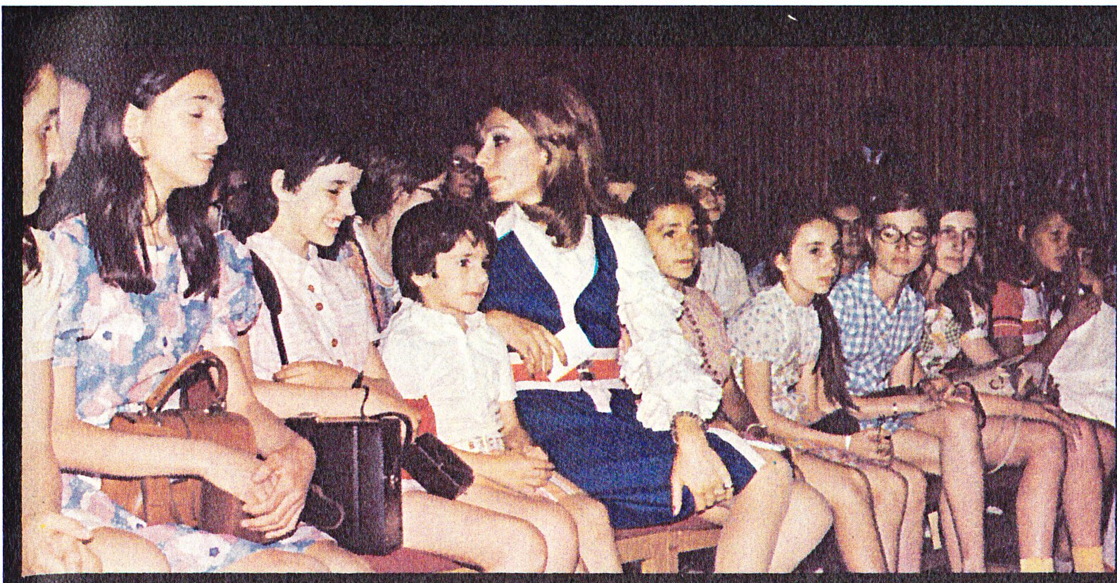 Queen Farah and Princess Leila in one of Niavaran Library activities